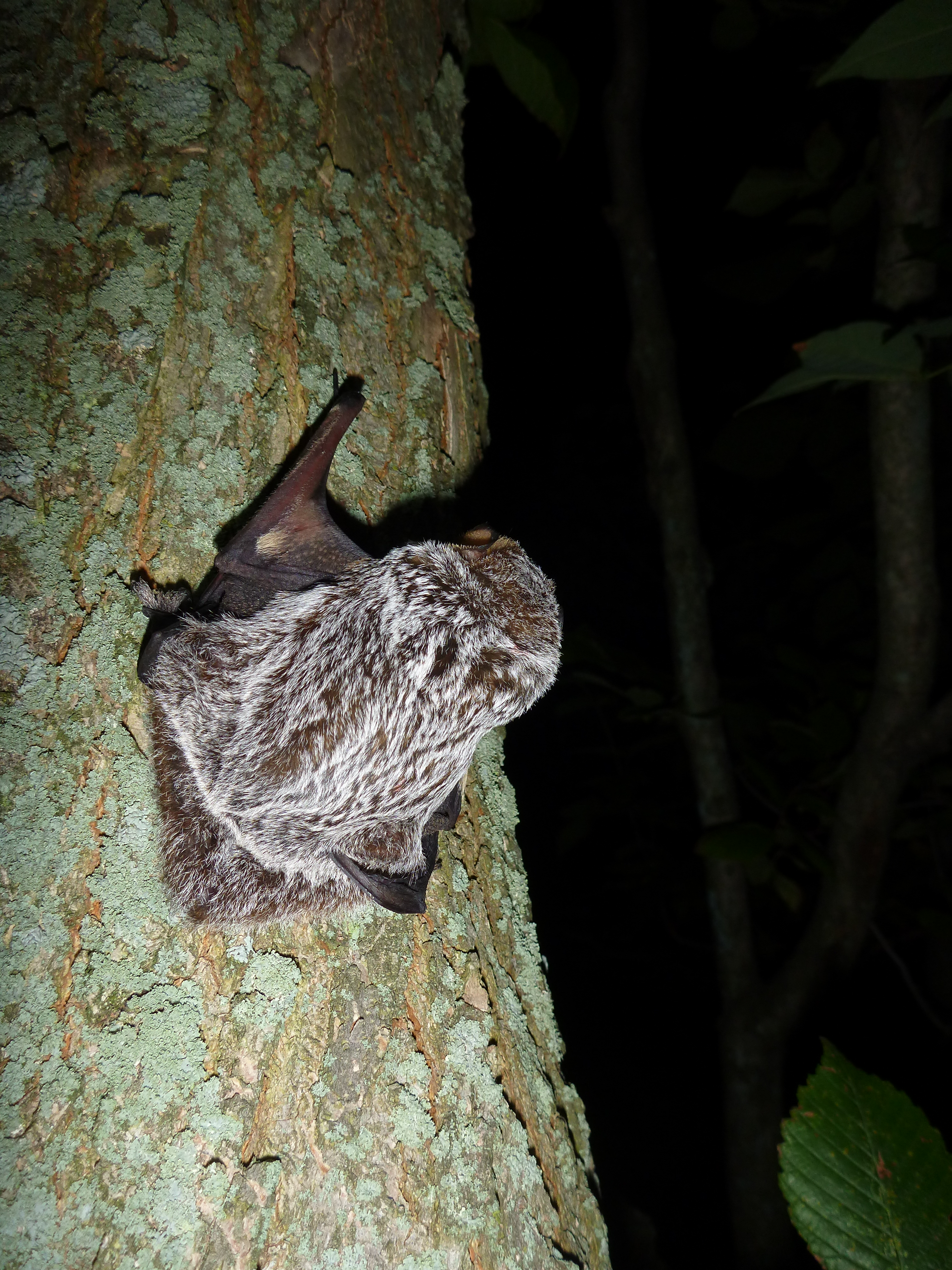 Juvenile male hoary bat in Ohio